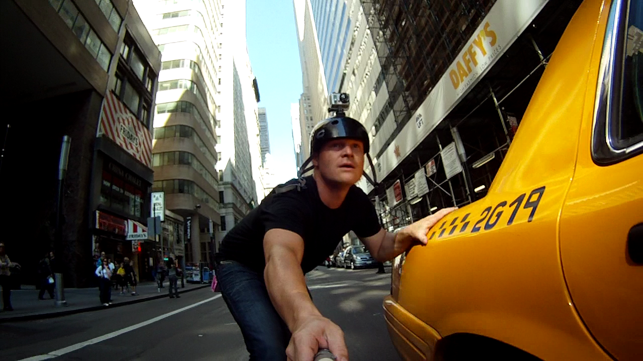 A skateboarder (Tyson) demonstrates skitching during a longboard race in New York City.